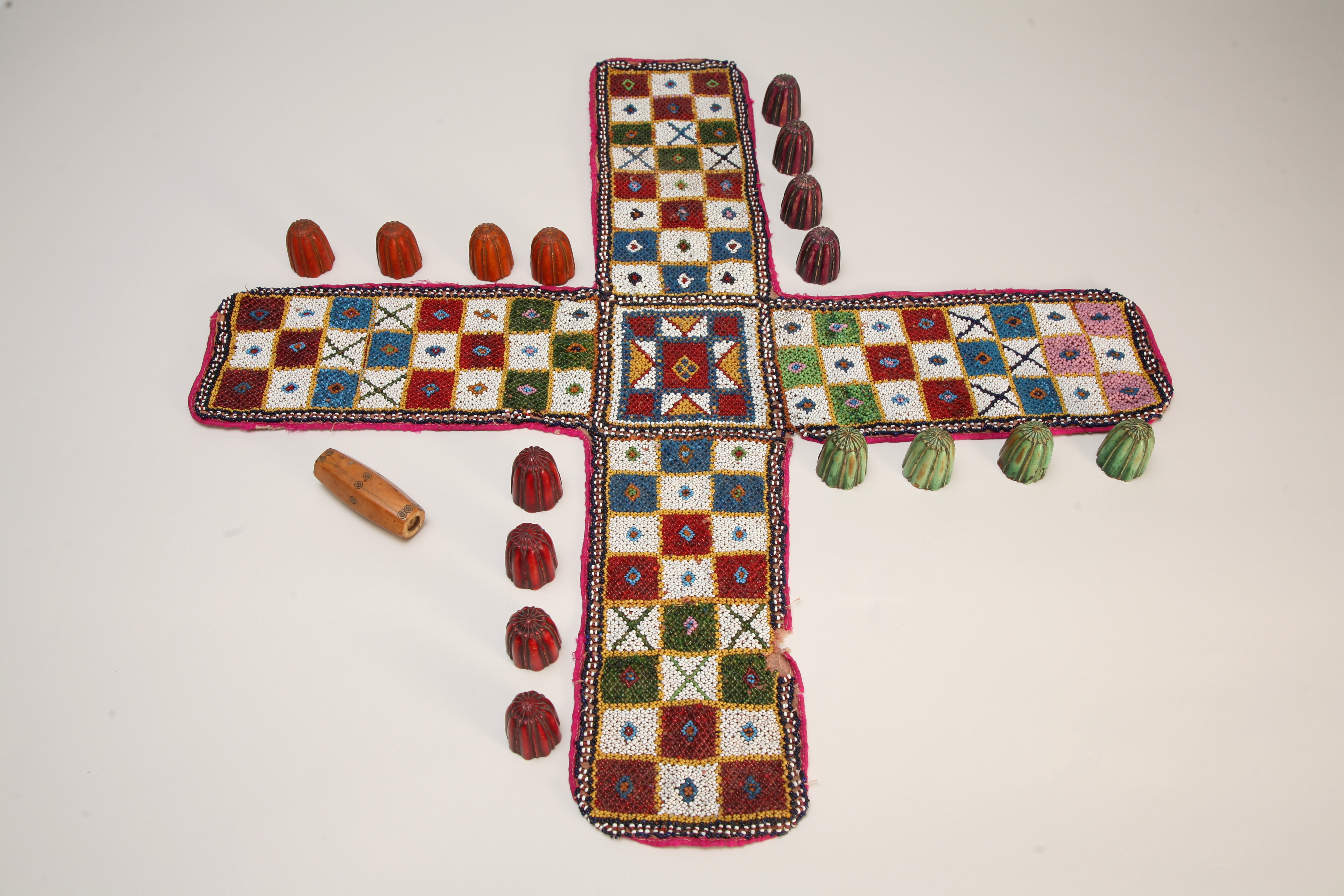 Hand-made beaded board game set (Pachisi), from the Collection of the Children's Museum of Indianapolis.